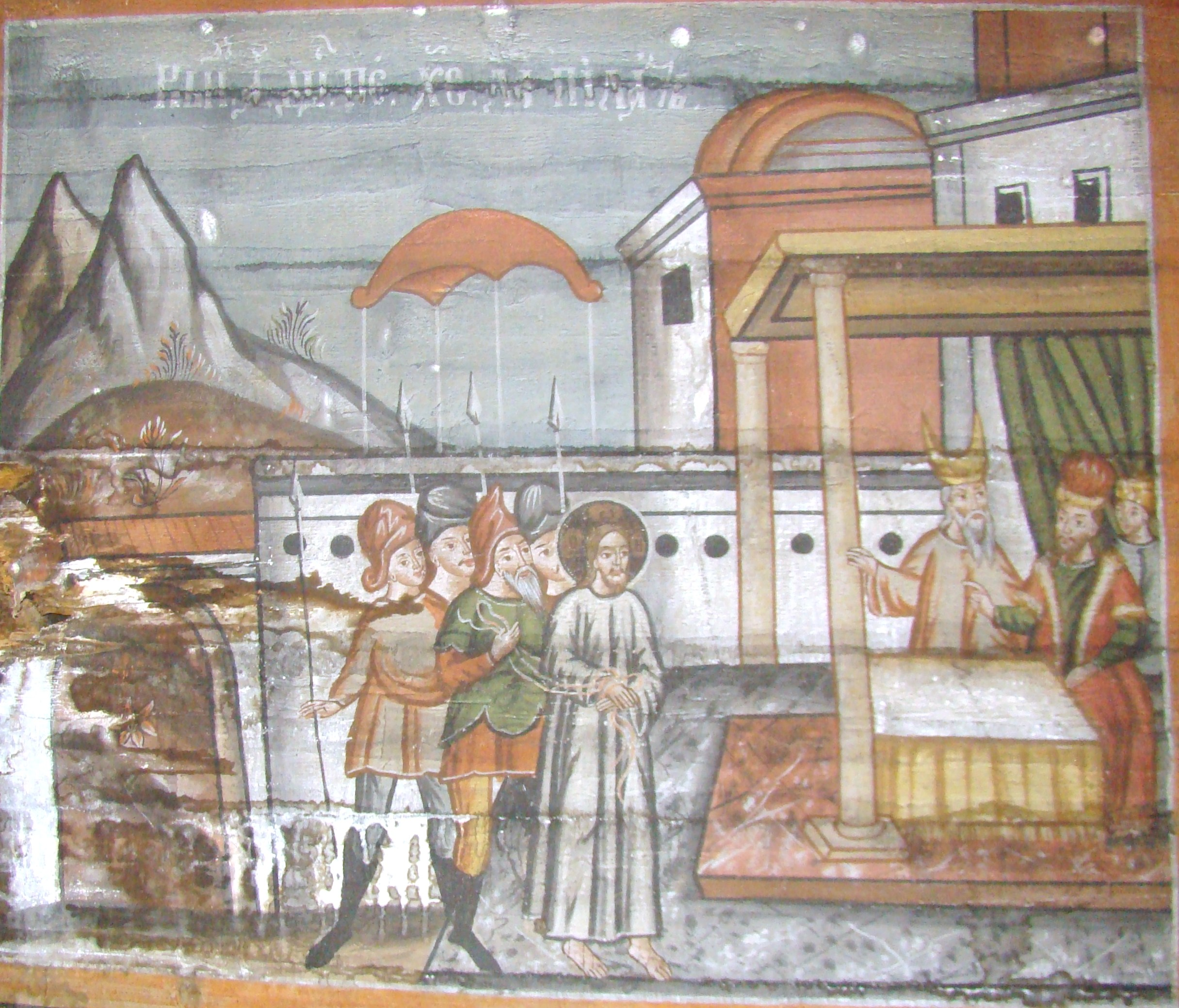 Wooden church in Apoldu de Jos, Sibiu countyRomână: Biserica de lemn din Apoldu de Jos, județul Sibiu